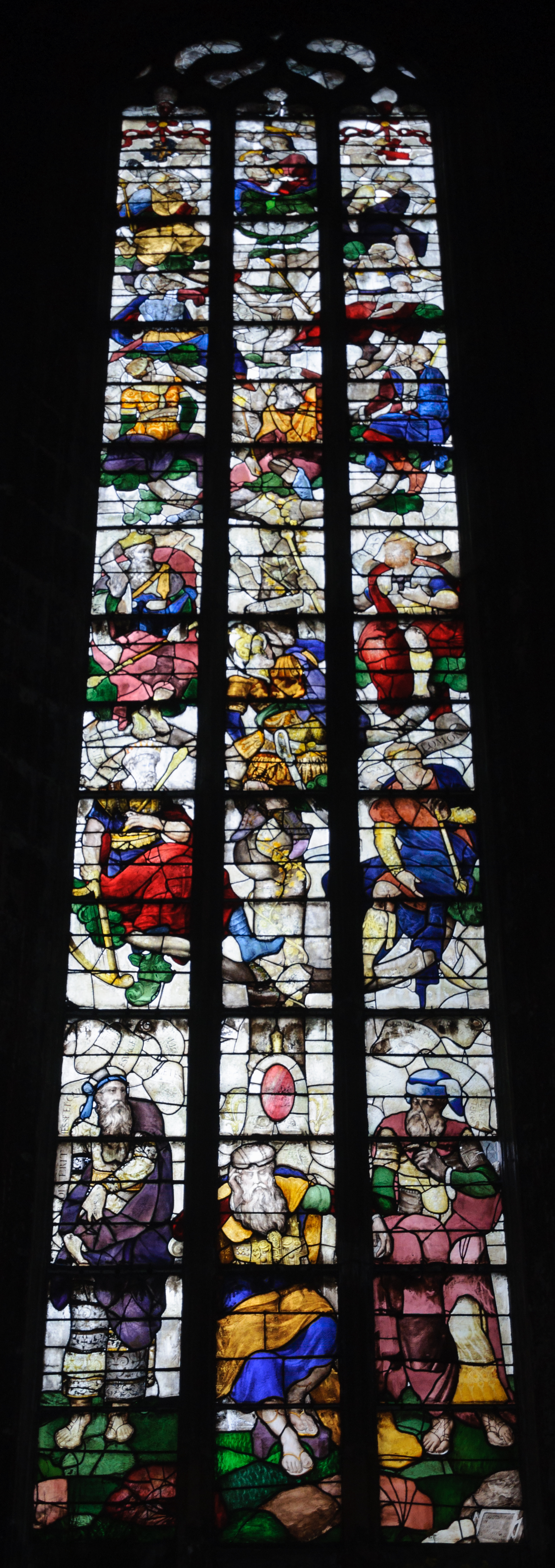 Stained glass window of Tree of Jesse in St Nicolas church, Châtillon-sur-Seine, Côte-d'Or department, Burgundy, France.